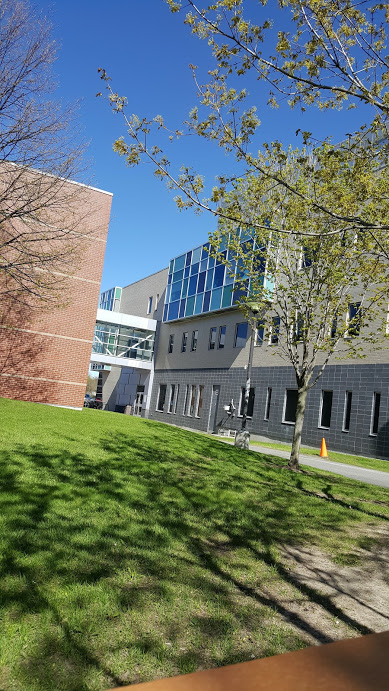 T Building - Woodroffe Campus